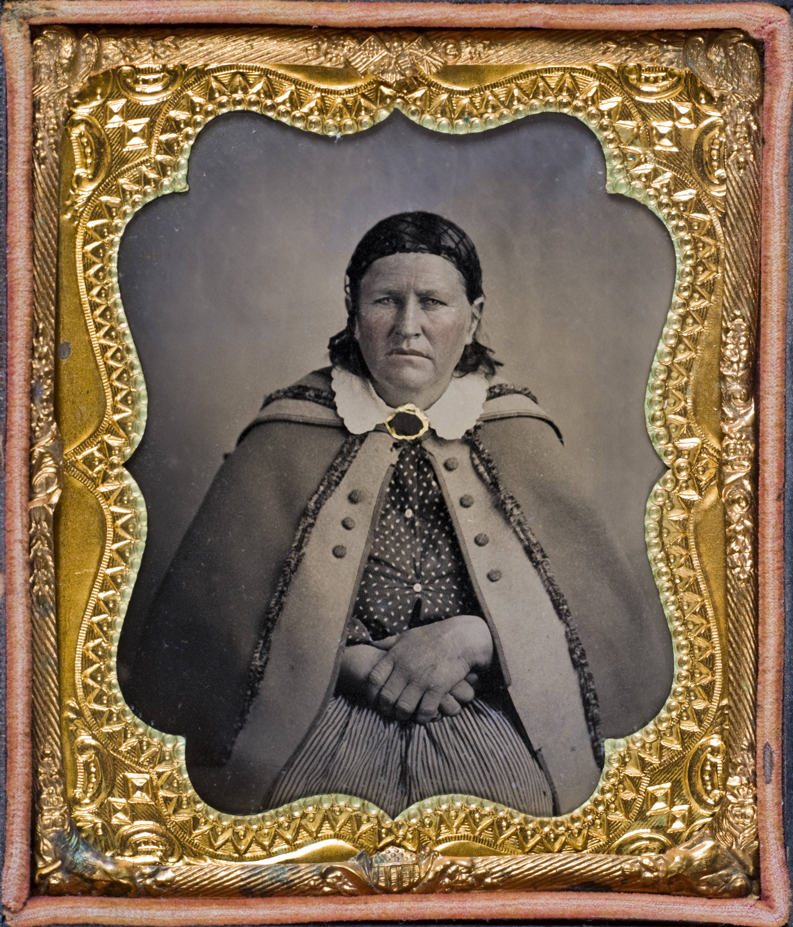 Title: [Cynthia Ann Parker] Creator: Bridgers, William Date: 1861 Part Of: Lawrence T. Jones III Texas photography collection Description: This view is the earliest extant image taken of Cynthia Ann Parker (1827?-1864). Physical Description: 1 photograph: sixth plate tintype, hand colored; 7 x 8.3 cm. Form/Genre: Tintypes; Photographs; Portrait photographs File: #1.tif Rights: Please cite DeGolyer Library, Southern Methodist University when using this file. A high-resolution version of this file may be obtained for a fee. For details see the web page. For other information, . For more information, View Lawrence T. Jones III Texas Photographs at